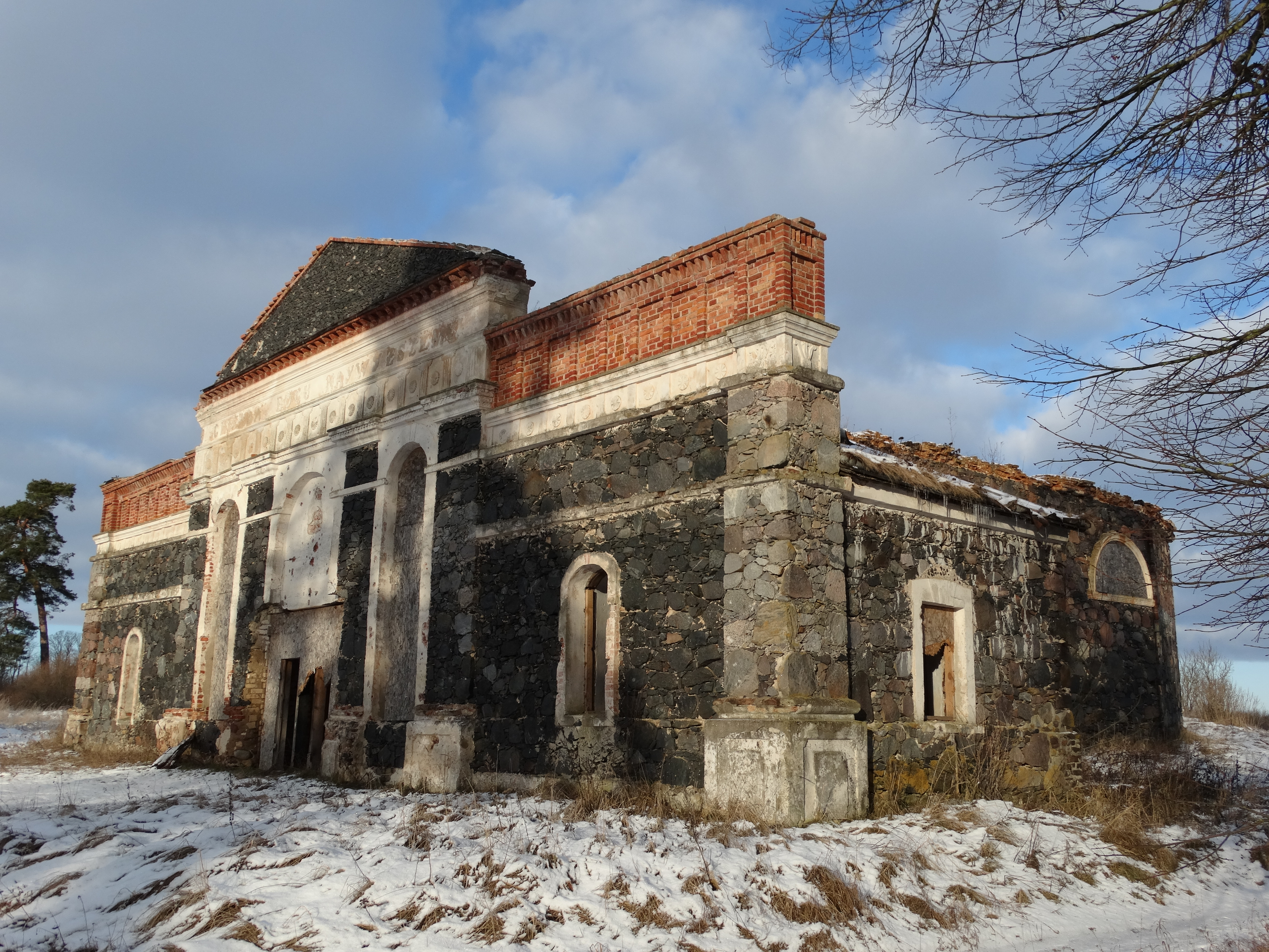 Chapel in Nevėžninkai, Panevėžys district, Lithuania